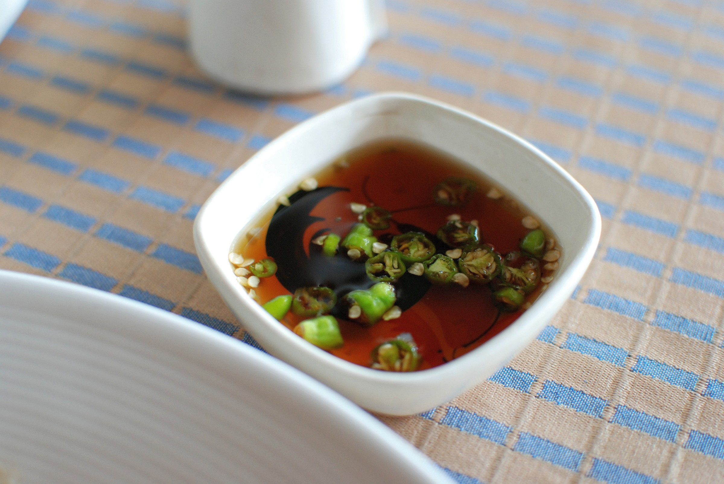 Phrik nam pla or nam pla phrik is a fish sauce (nam pla) containing chopped chillies (phrik), usually bird's eye chilli (green, red, or mixed), sometimes including lime juice (nam manao) and chopped or thinly sliced raw garlic (krathiam). It is a standard sauce at nearly every Thai meal where it is used in much the same way as salt (albeit a spicy "salt"). It is viewed in Thailand as being spiced fish sauce, not as a chilli paste (not a nam phrik).